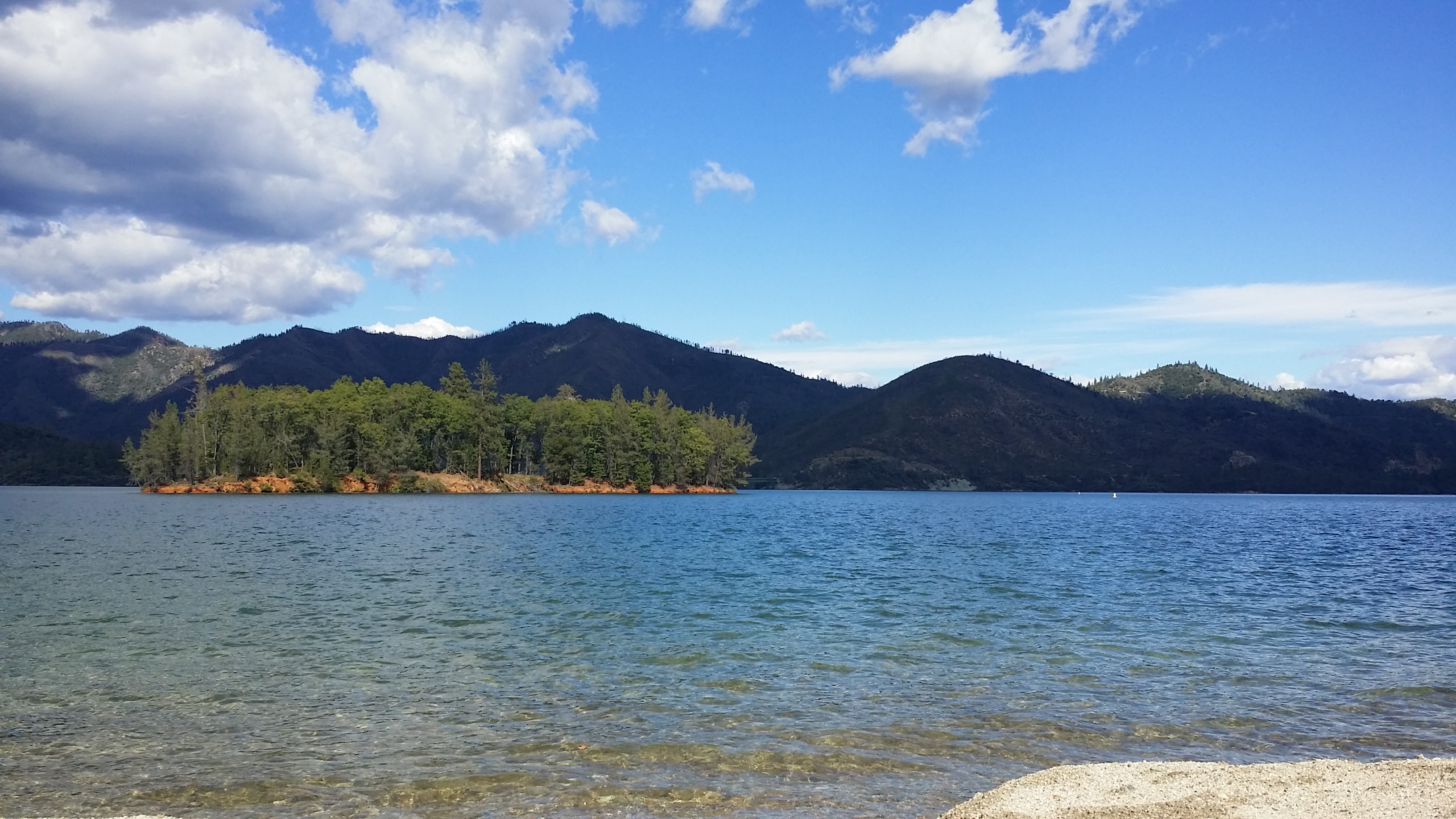 South side shore